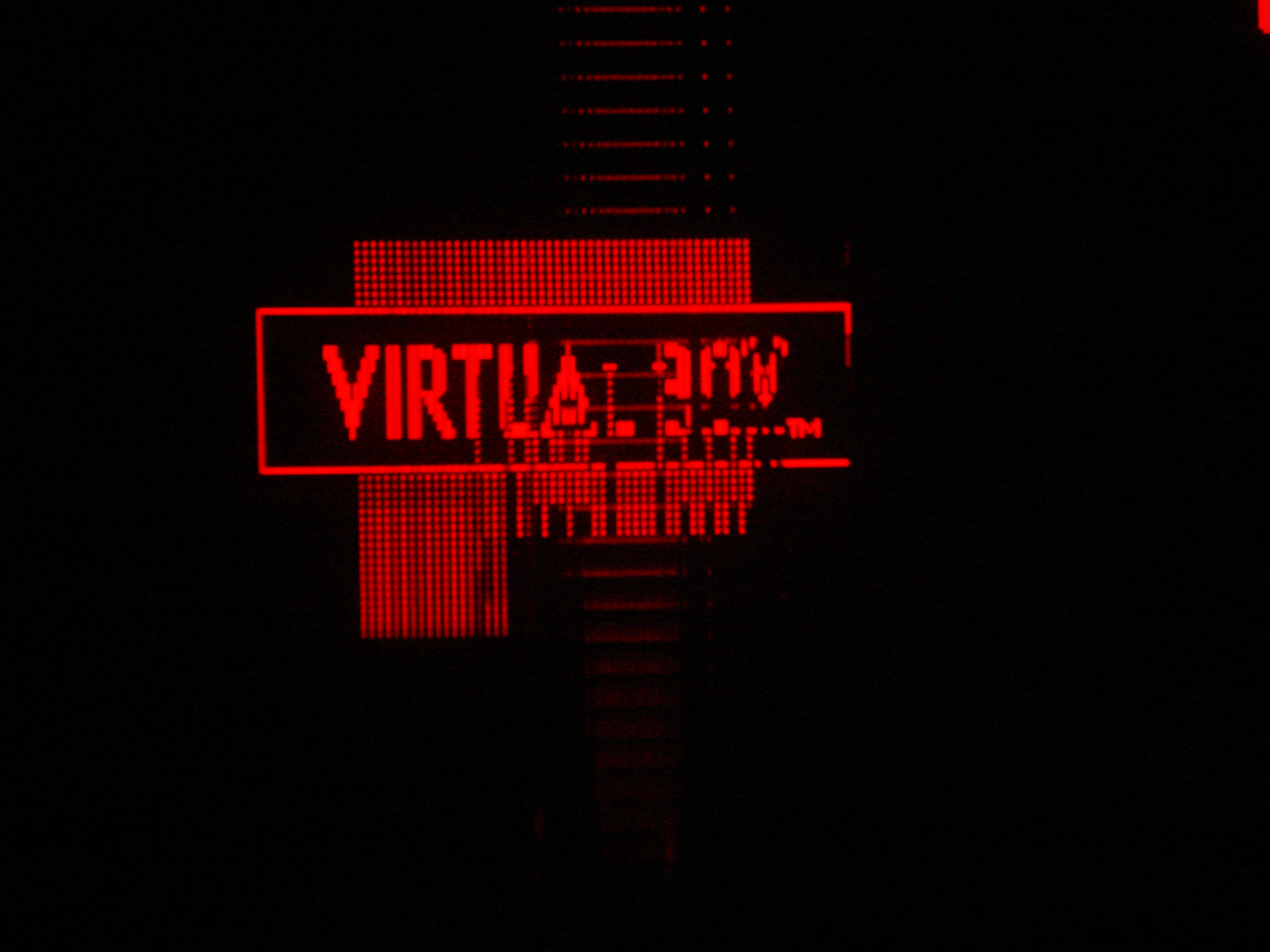 Looking in the Virtual Boy right eye piece.